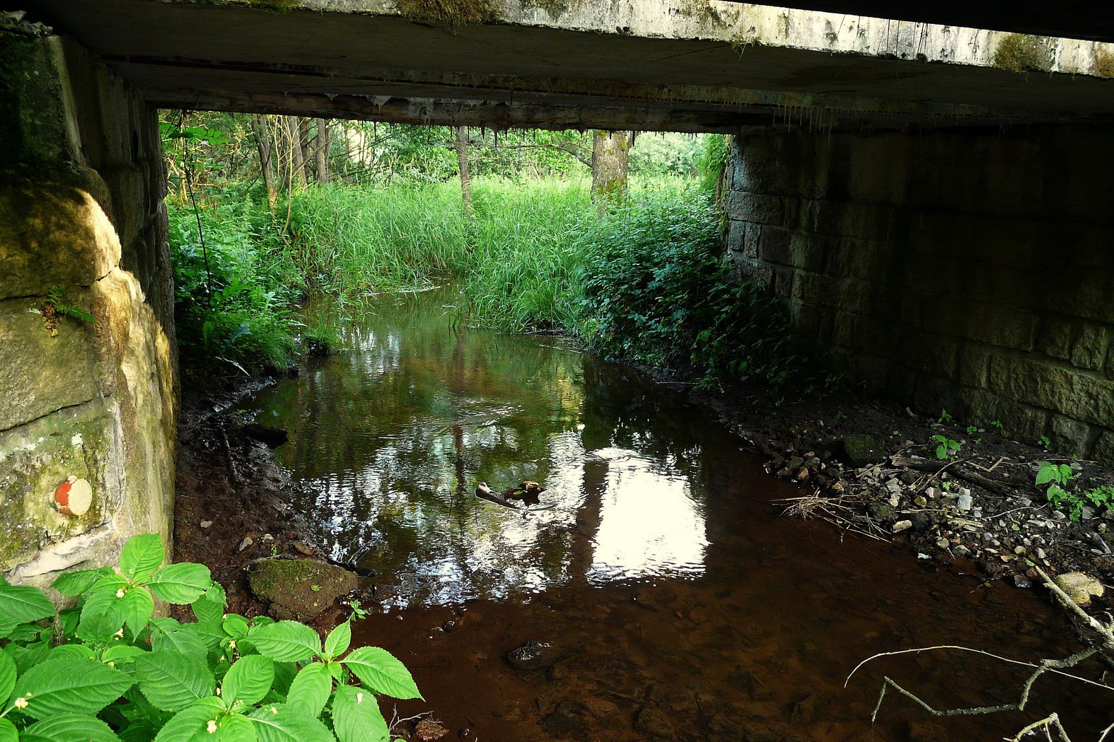 Čertův stream near Těšnov